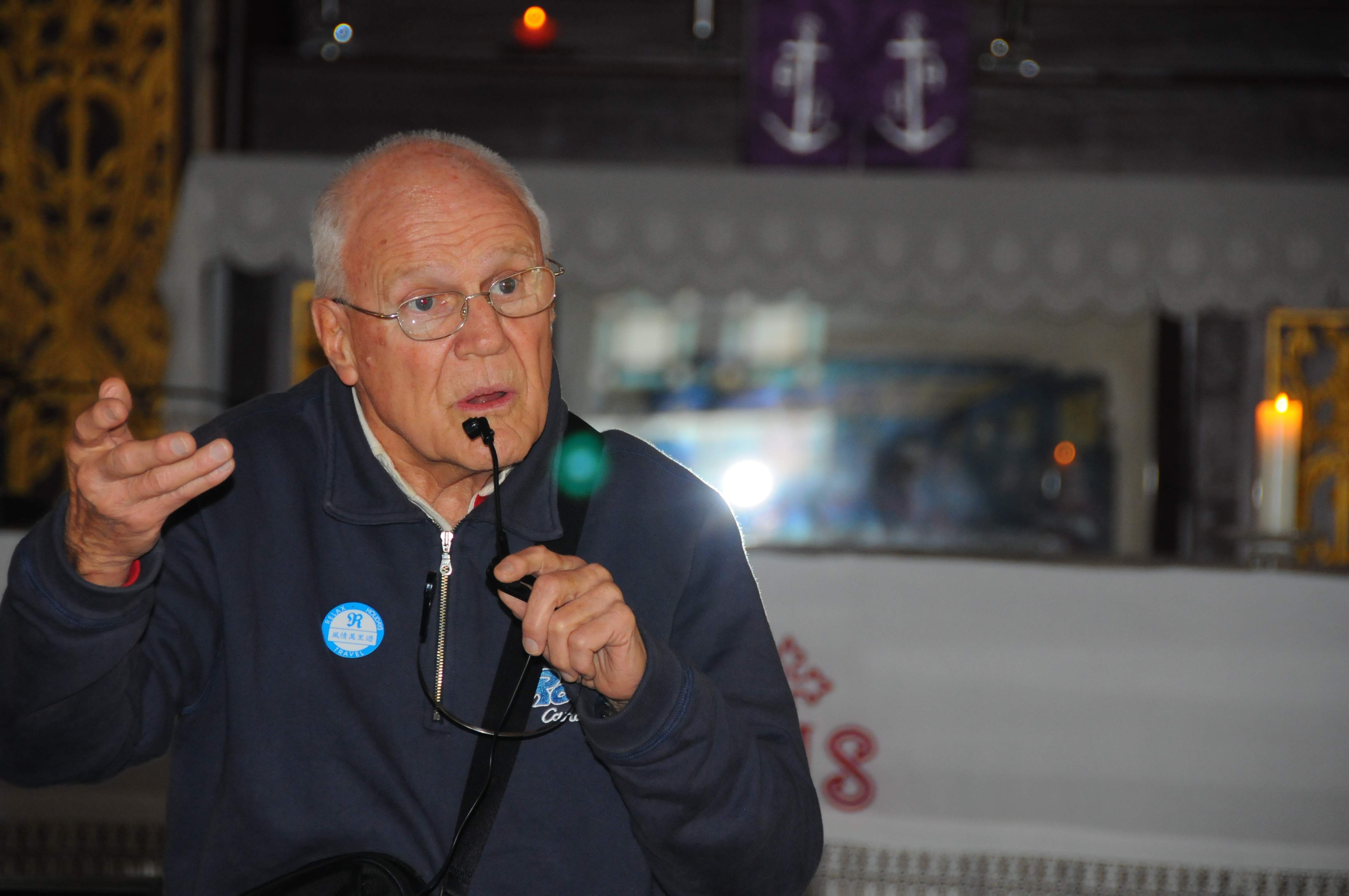 Father Thomas A Peyton, ex-Supervisor of Bishop Paschang Catholic School